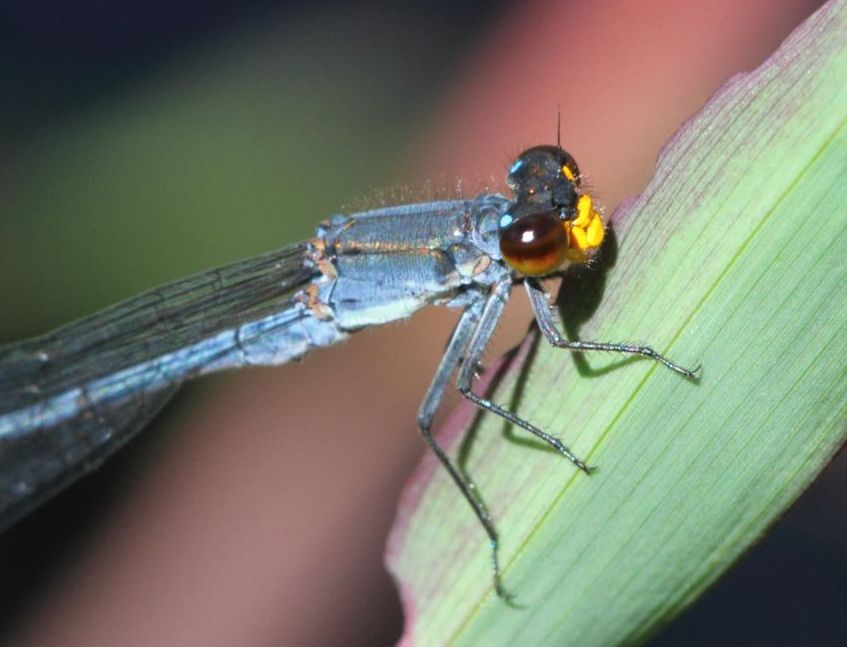 Male Pseudagrion citricola (Yellow-faced Sprite); Kamberg Nature Reserve, KwaZulu-Natal. Detail of face and thorax.